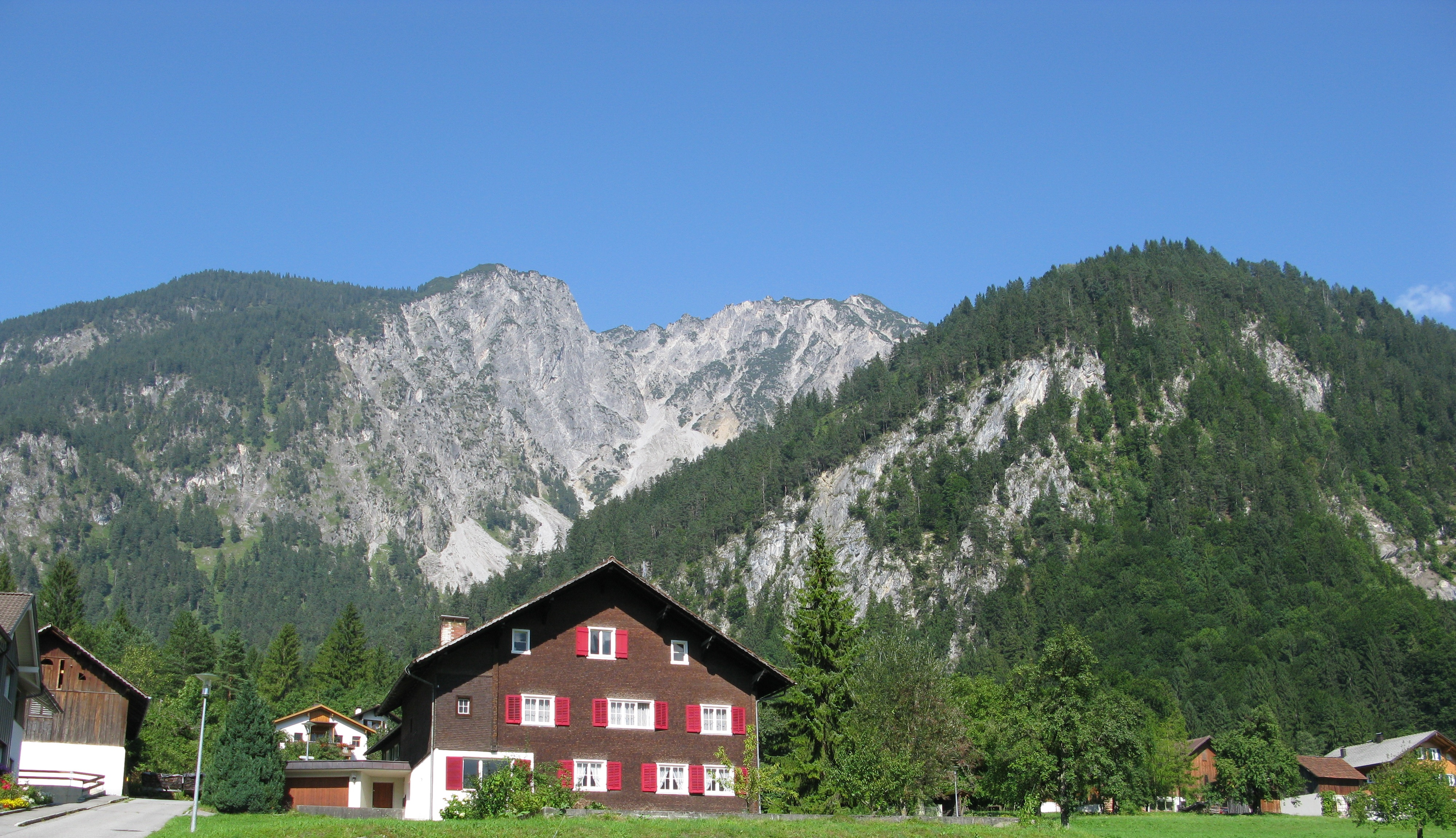 Houses of the village Sankt Anton in Montafon (Vorarlberg, Austria)